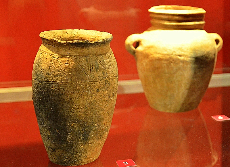 pot from avar kaghanat period 7-8th c. AD, pot e. 10th c. AD